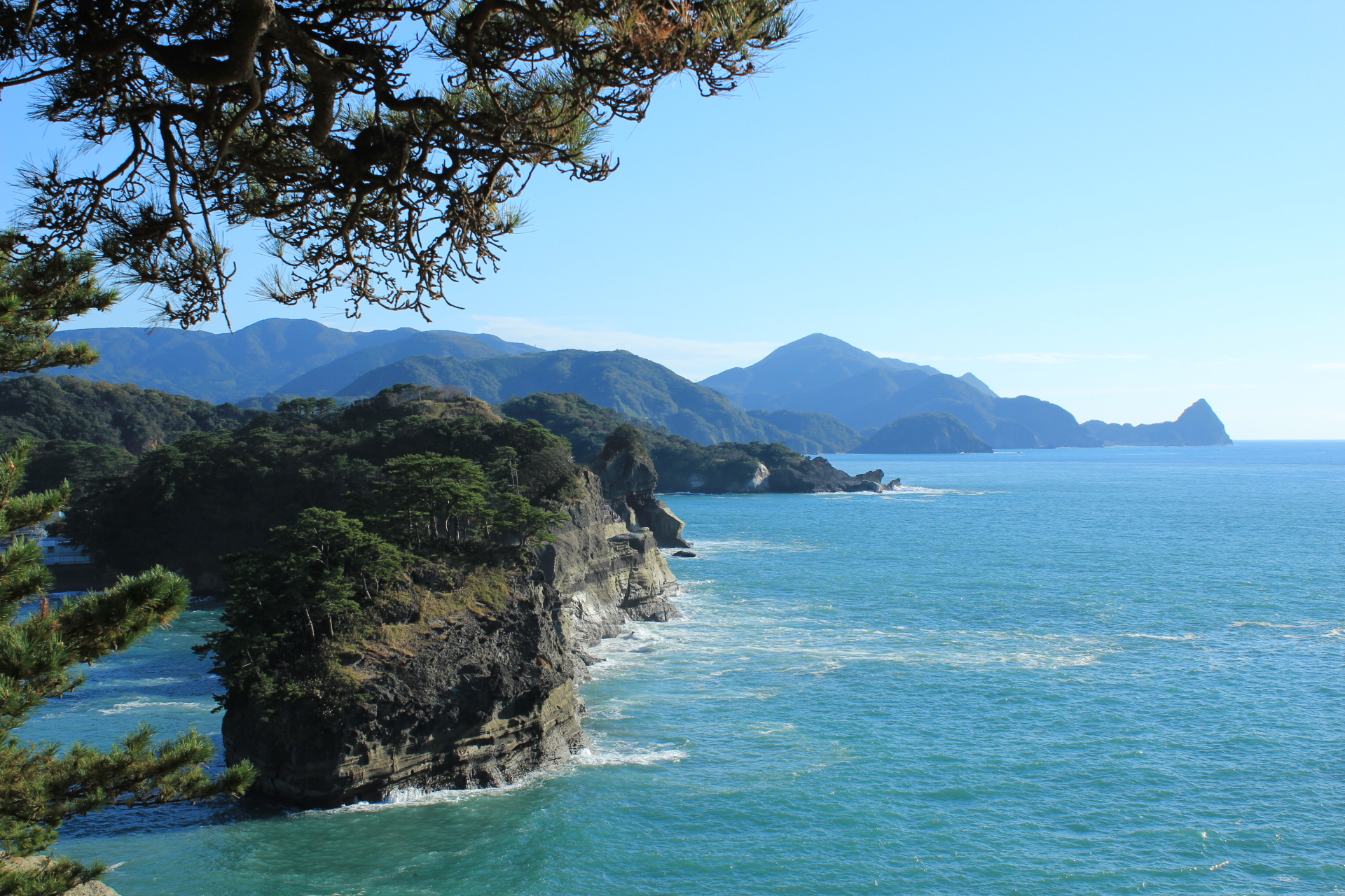 Coast from Nishiizu to Matsuzaki. Shizuoka prefecture, Japan.